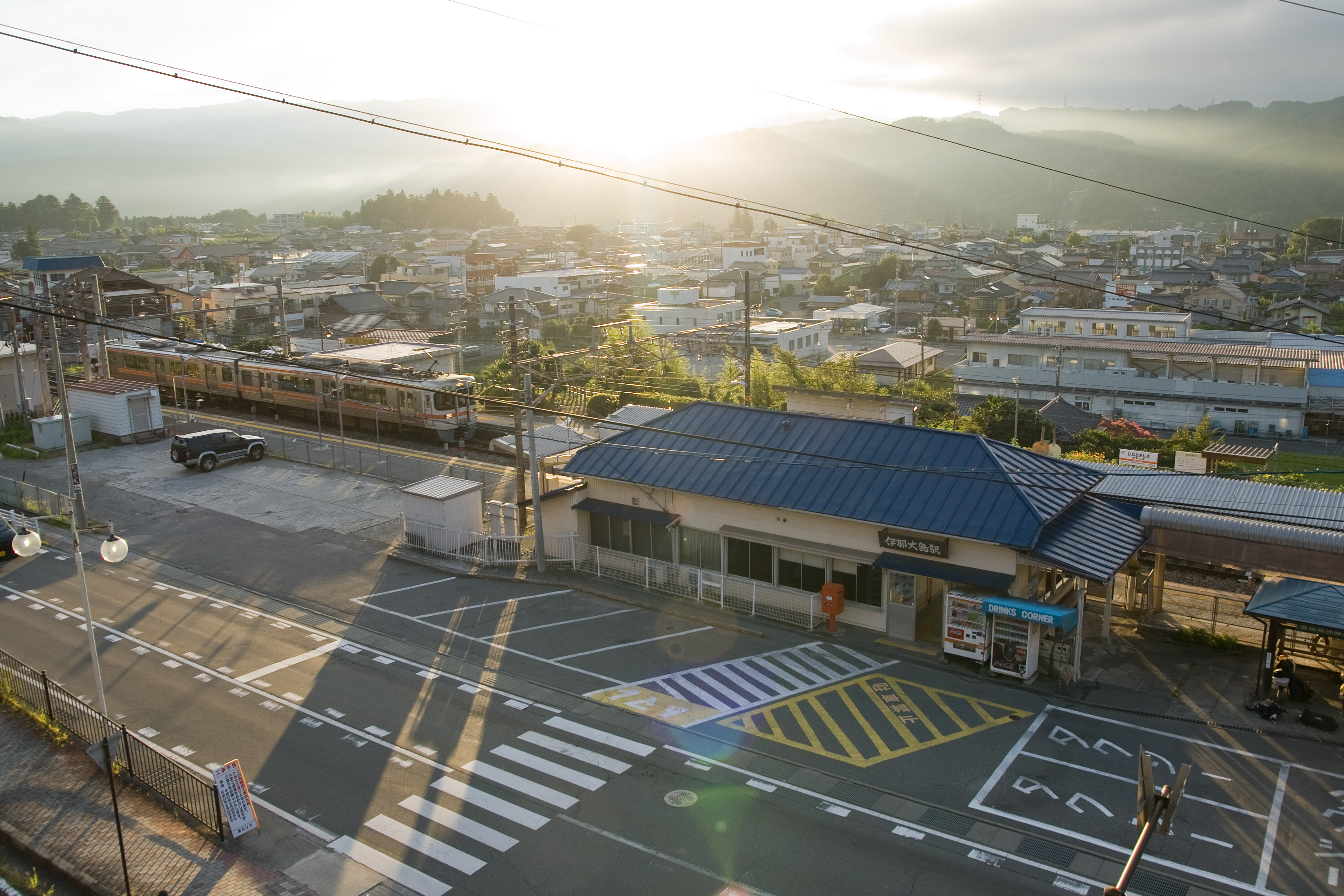 Ina-Oshima Station in Matsukawa town, Nagano Prefecture, Japan.